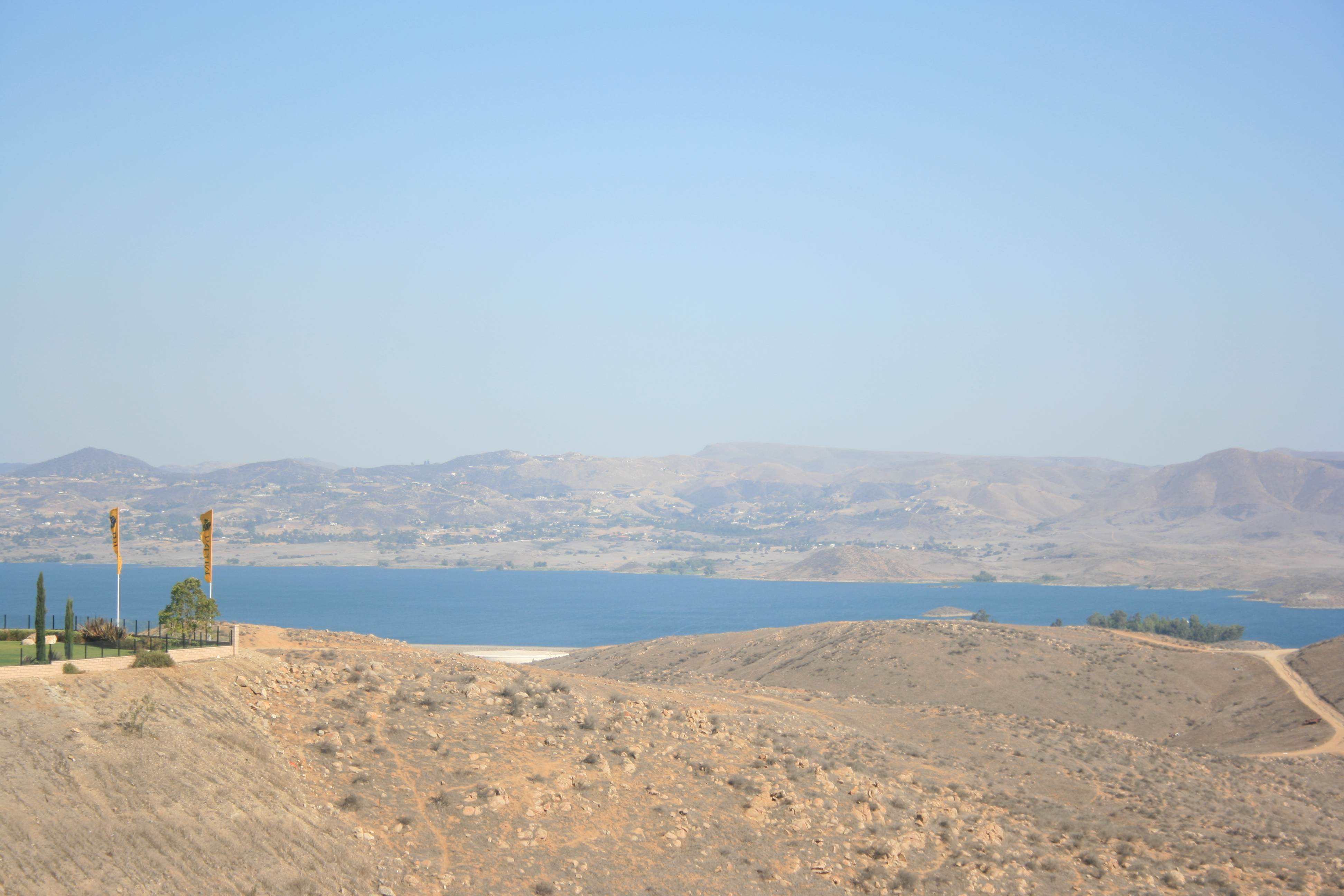 Landscape of Lake Mathews